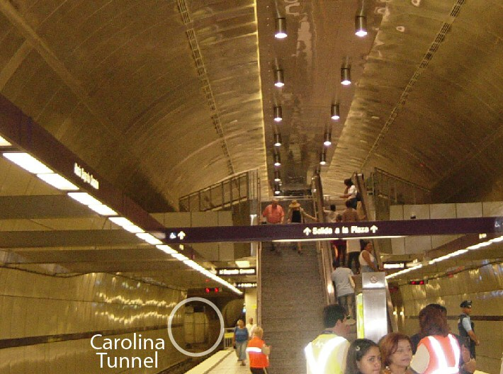 Carolina Tunnel (1 of 2) at the Río Piedras subway station.jpg